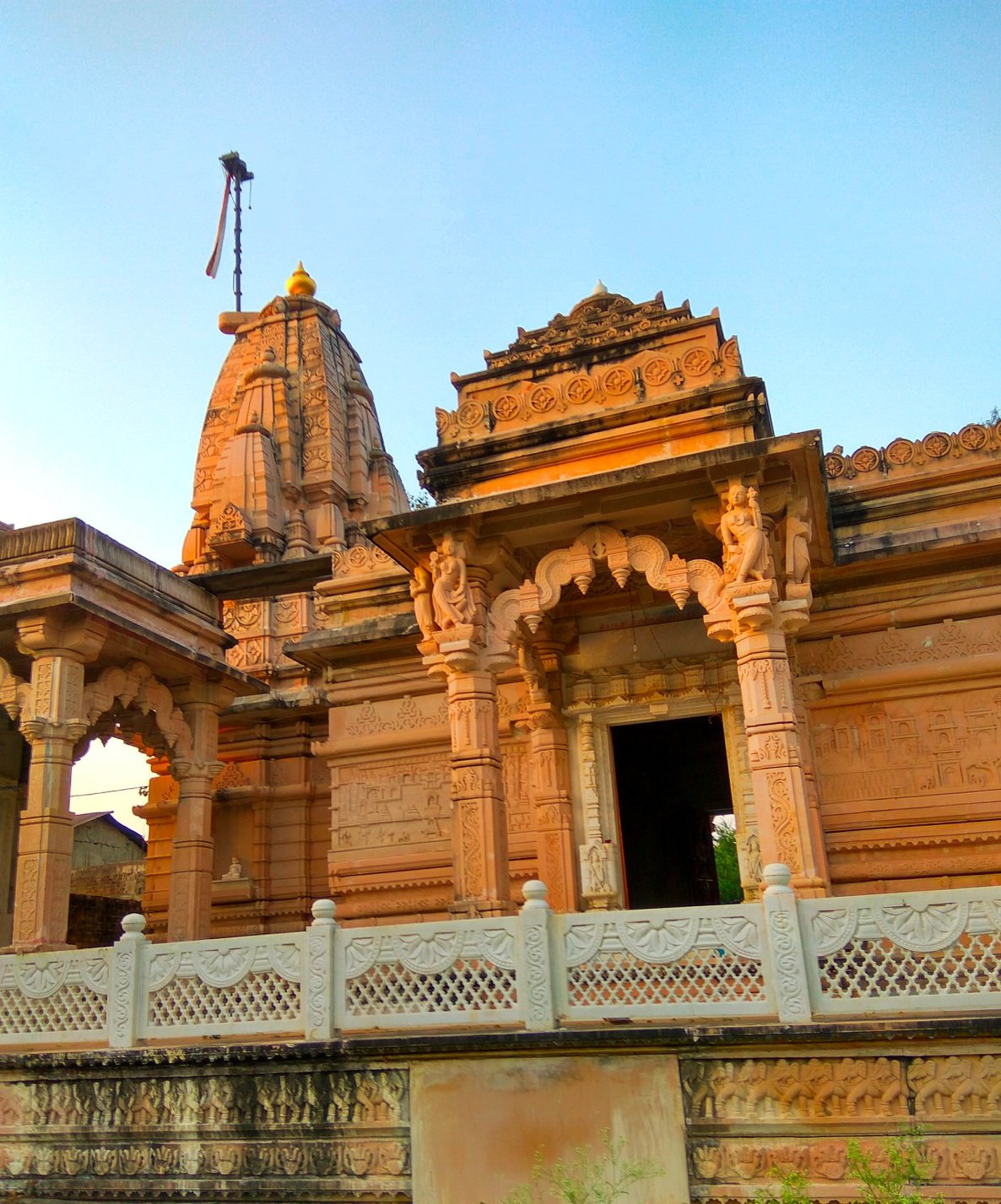 Jain temple at Thikana Khadotiya